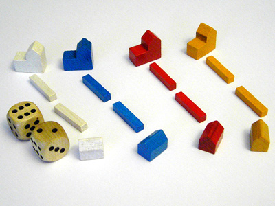 some tiles for parlor game Settlers of Catan.